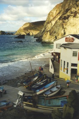 Kernowek: Dhiworth :de. GFDL herwydh an skeusenner. Porth Trevaunce orth Breanek. QuartierLatin 1968 03:46, 15 July 2005 (UTC)